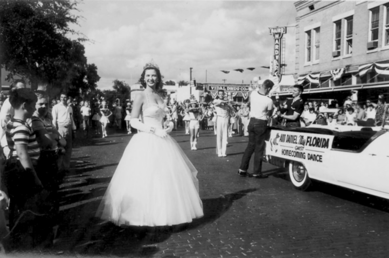 Photo of Ann Daniel, Miss Florida 1954, from the University of Florida Digital Collections, (Gainesville, Florida).